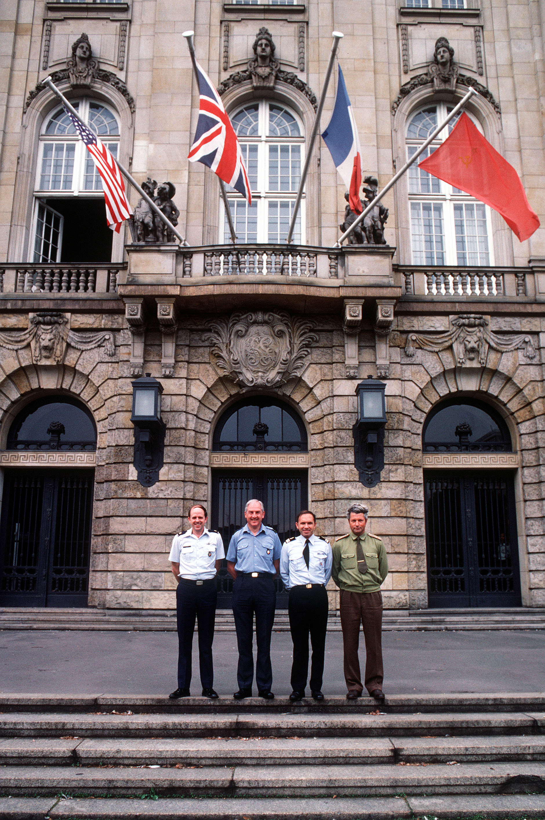 Pictured outside the Berlin Air Safety Center (BASC) are, left to right: MAJ. Rick Fuller, U.S. Air Force; David Pollock, British wing commander; COL. Claude Favier, French representative and COL. Boris Shunin, Soviet representative.